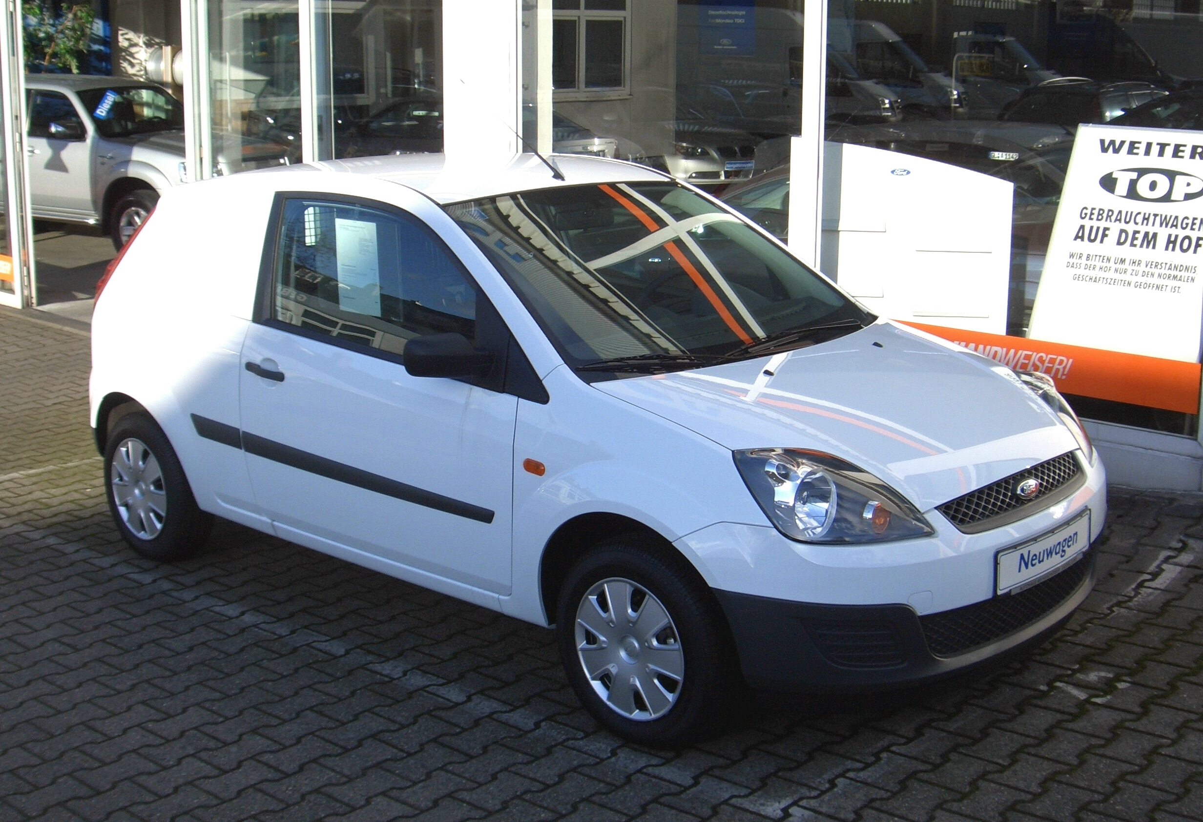 Ford Fiesta Van 1.4 TDCi, Mk.5 / Facelift, from 2007